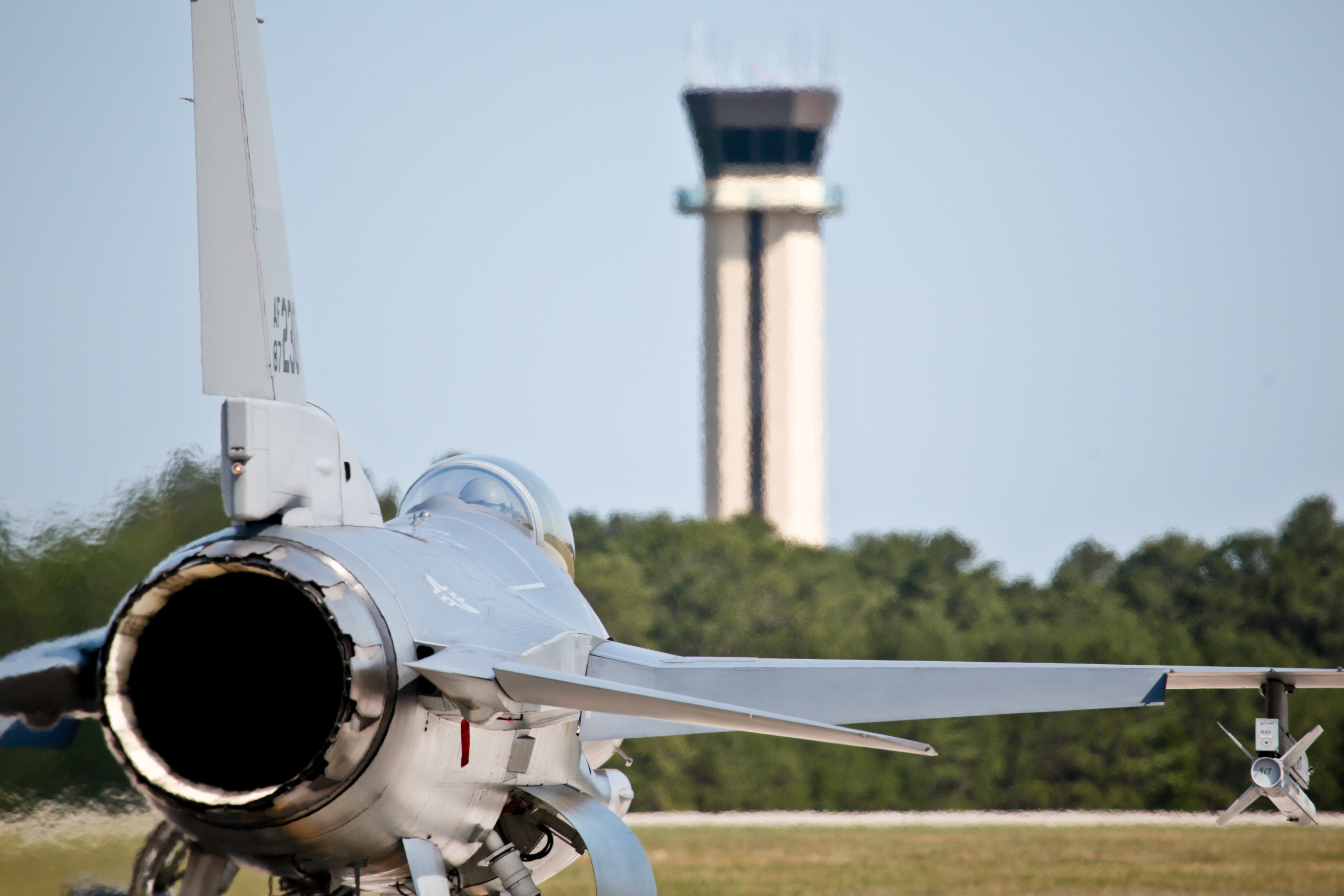 A U.S. Air Force F-16C Fighting Falcon from the New Jersey Air National Guard's 177th Fighter Wing "Jersey Devils" prepares to take off for a training mission on June 29, 2014, at Atlantic City Air National Guard Base, N.J. (U.S. Air National Guard photo by Tech. Sgt. Matt Hecht/Released)